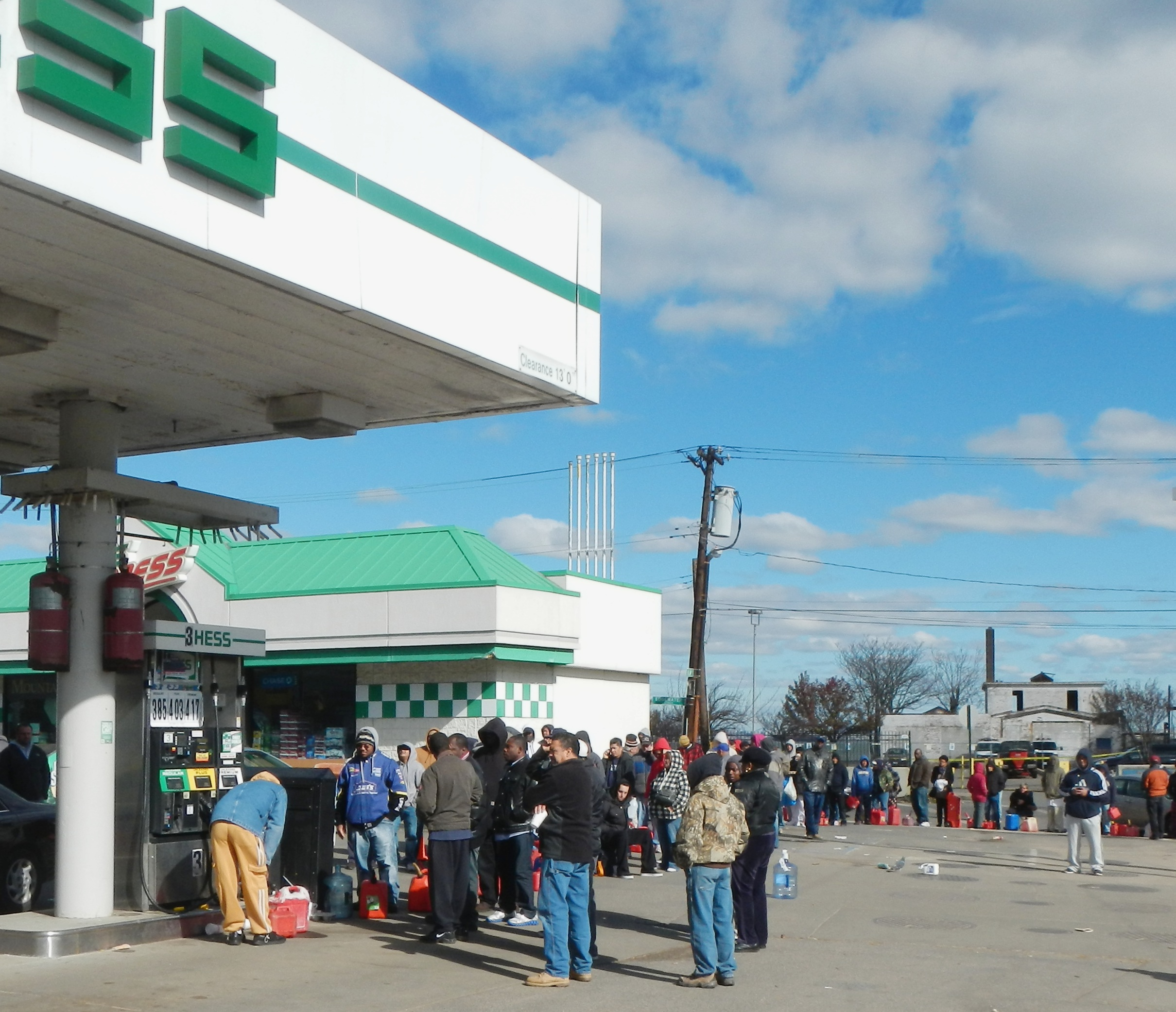 Looking north from Bay Street in Clifton as residents of nearby blackout zone wait their turn to fill their fuel cans on the first sunny day after Sandy.